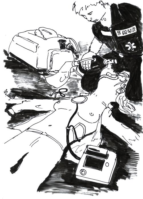 CPR-oxygen-defibrillator